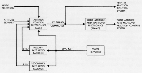 A functional block diagram of the attitude control and maneuvering electronics system of the Gemini spacecraft. (McDonnell, "Project Gemini Familiarization Charts," June 5, 1962